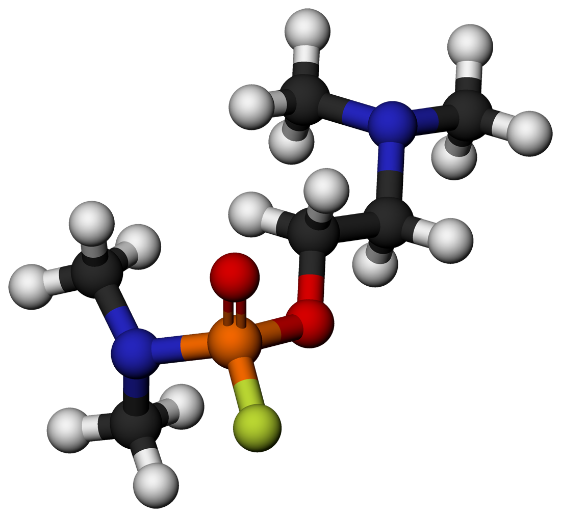 GV molecule 3D balls x1100